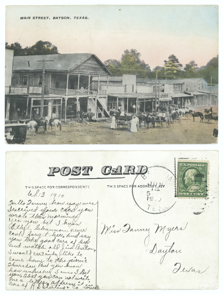 Title: Main Street, Batson, Texas. Creator: Unknown Date: ca. 1910 Part of: Place: Batson, Hardin County, Texas Physical Description: 1 photomechanical print (postcard): color; 9 x 14 cm File: a2014_0020_3_3_c_0025_c_batsonmain.jpg Rights: Please cite DeGolyer Library, Southern Methodist University when using this file. A high-resolution version of this file may be obtained for a fee. For details see the web page. For other information, . For more information and to view the image in high resolution, rel= View the